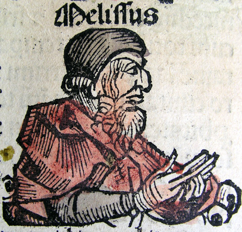 Ancient Greek philosopher Melissus of Samos, depicted in the Nuremberg Chronicle